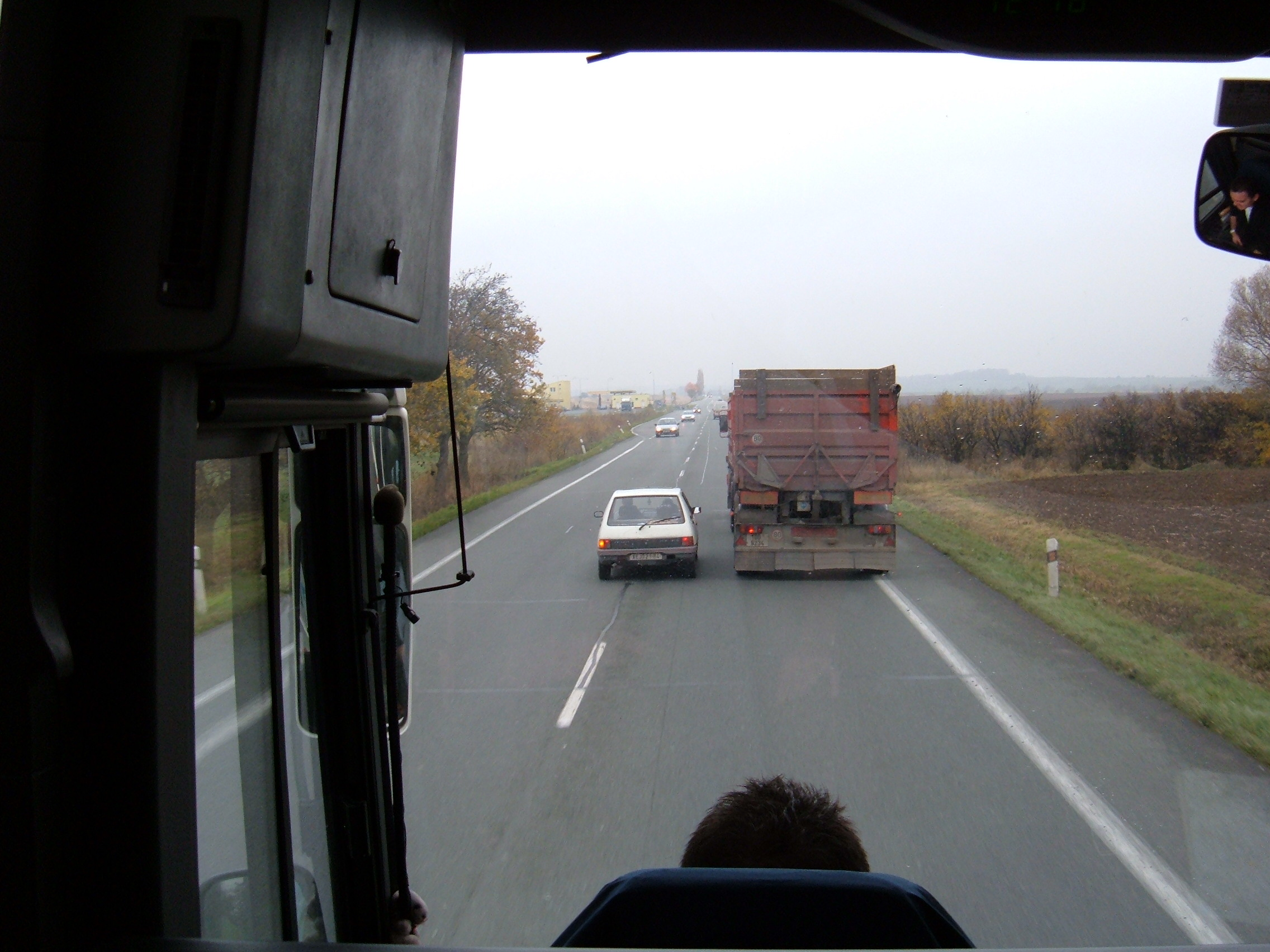 Passing traffic on the way from Kutná Hora to Prague, Czech Republic.